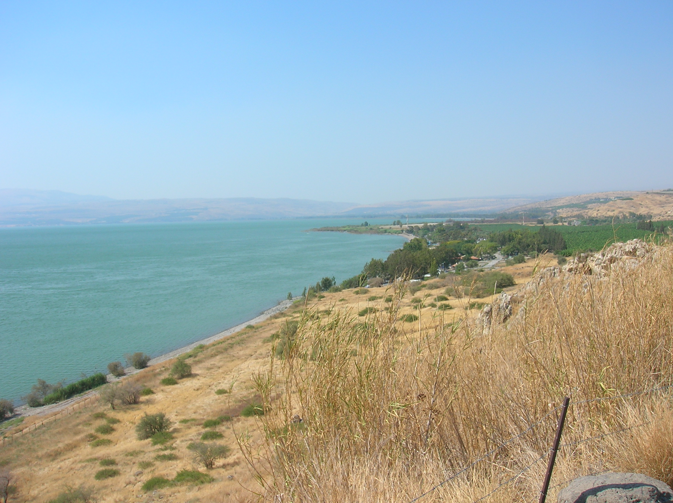 Israel - Tiberias - The Lake Photo taken on August 2005 by User:EdoM